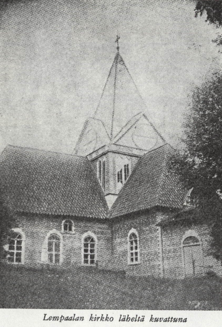 Luthern Lempaalankirkko church in 1911 — built in the 18th-century on the Karelian Isthmus, in the North Ingermanland (Russia). Demolished, its site is in present day Lembolovo in the Vsevolozhsky District, Leningrad Oblast - northwestern Russia.